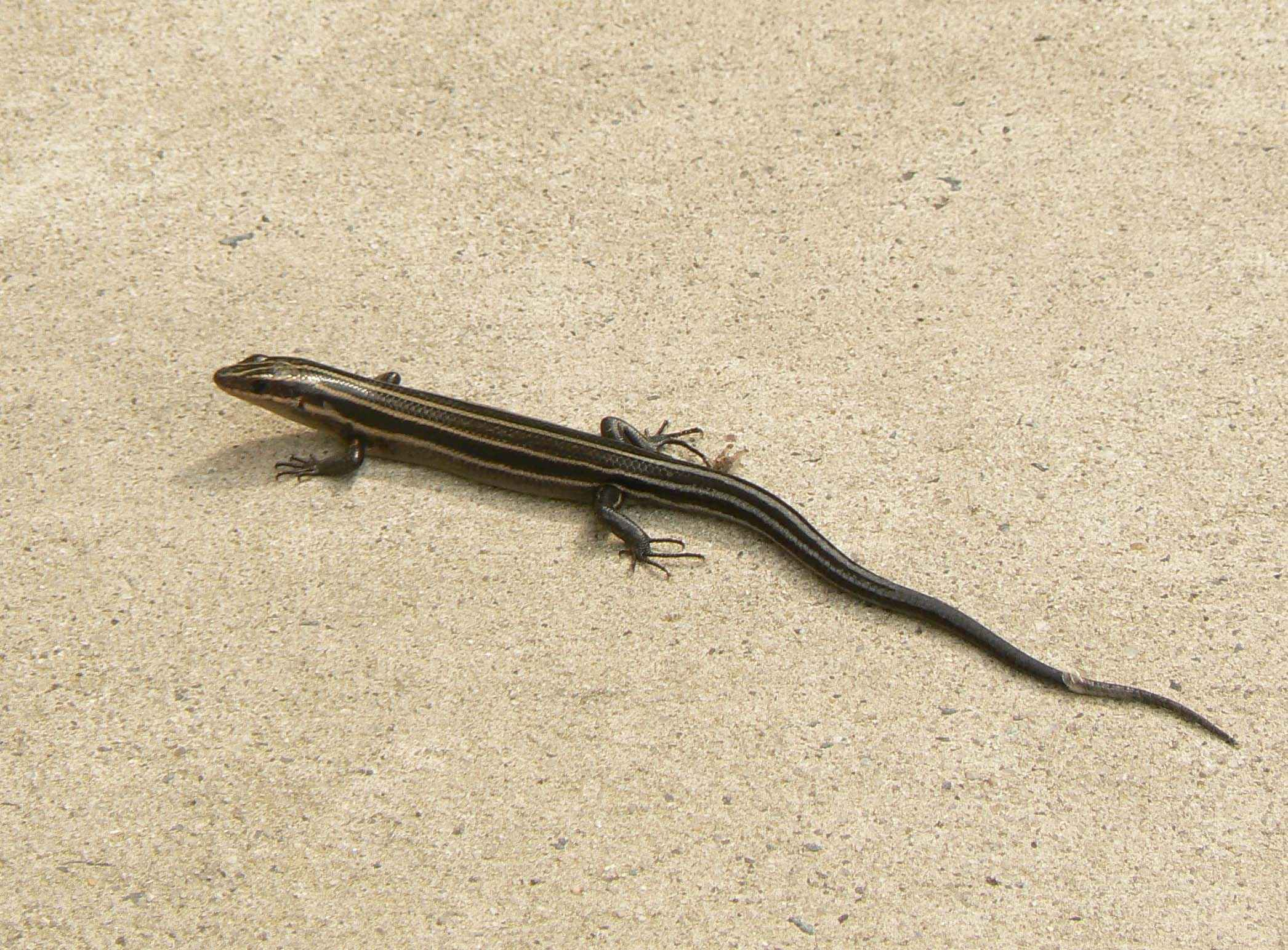 Image title: Five lined skink eumeces fasciatus Image from Public domain images website